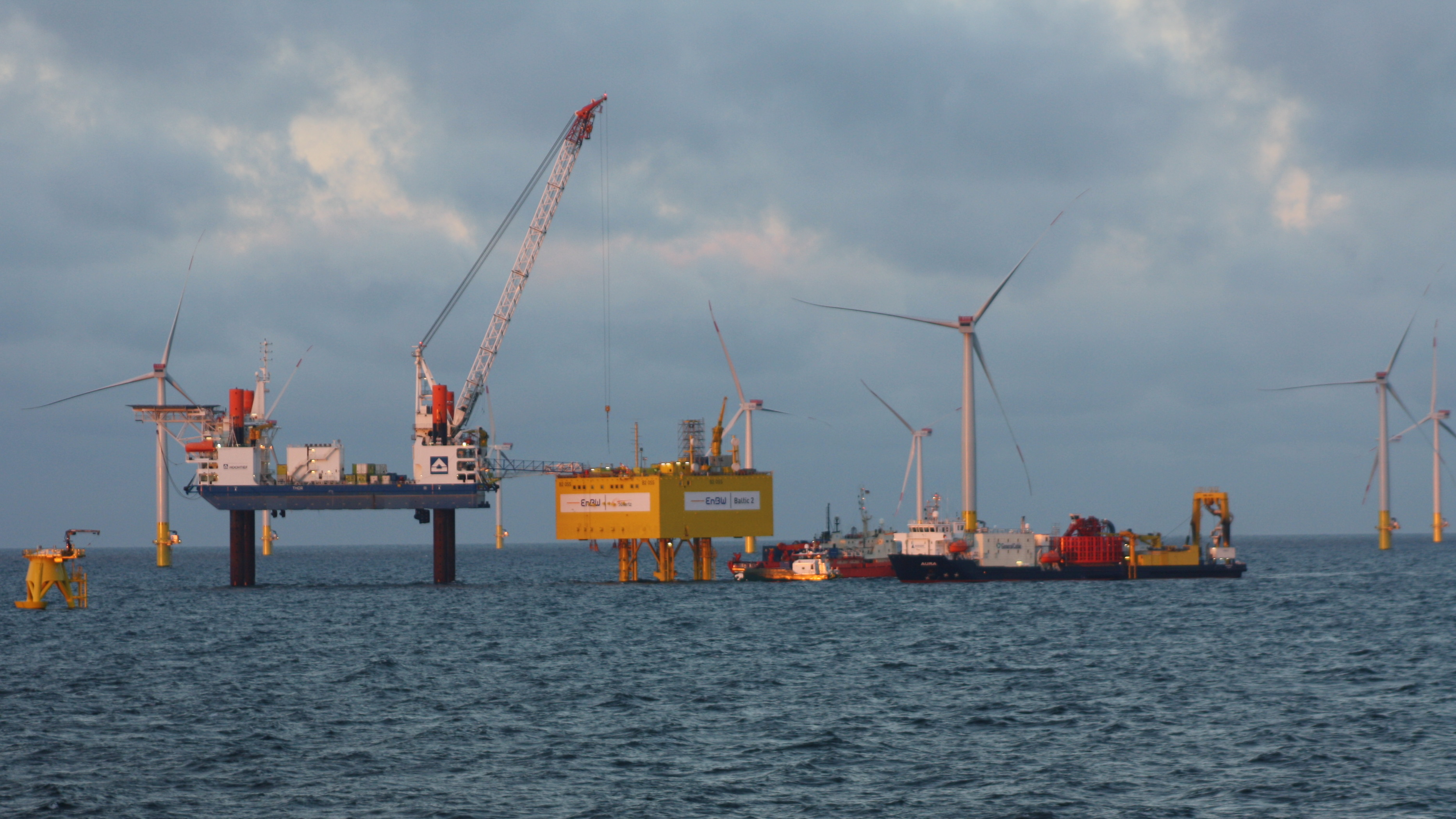 Construction area of Baltic 2 offshore wind farm